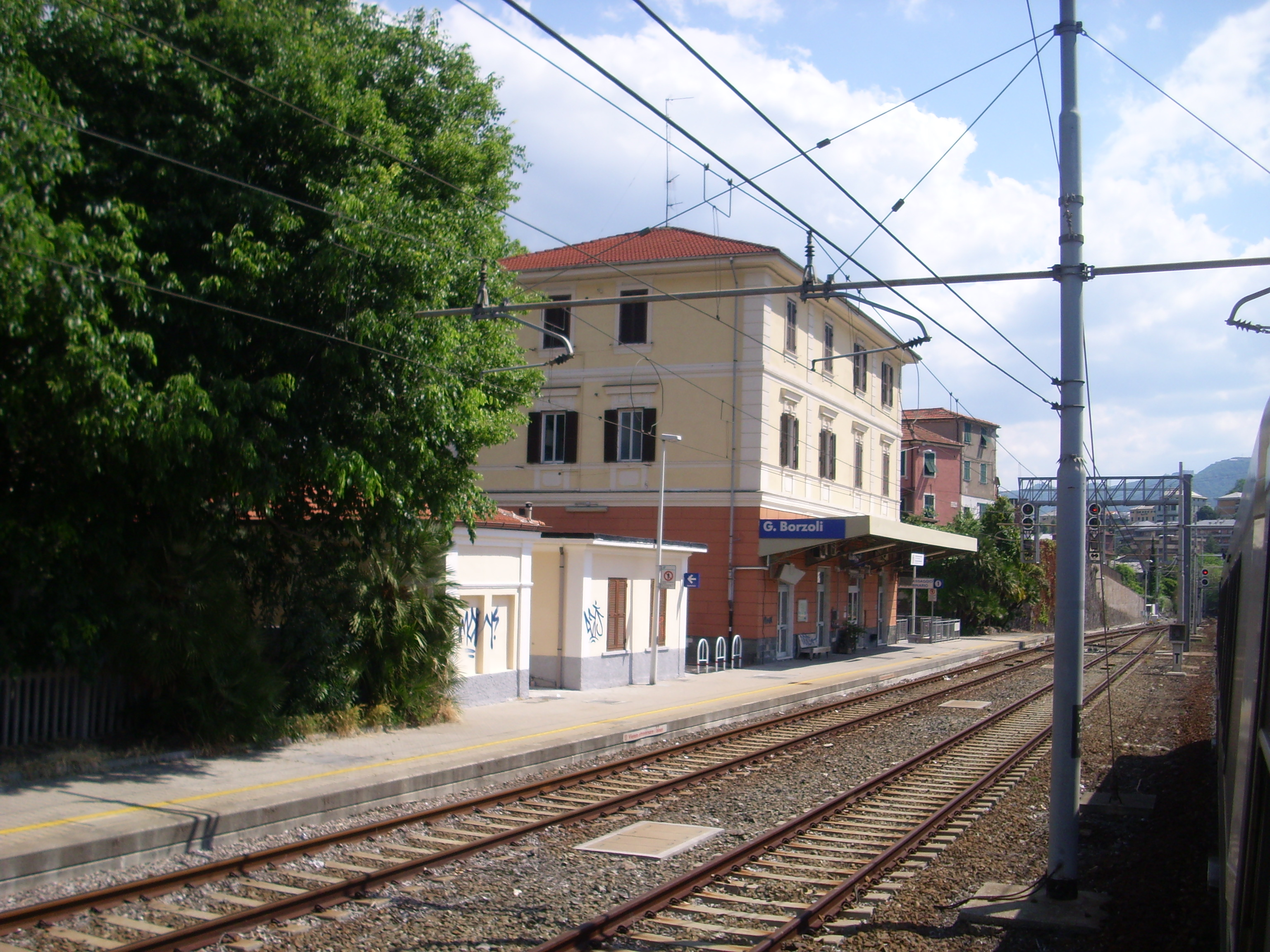 Railway station of Borzoli, Genoa